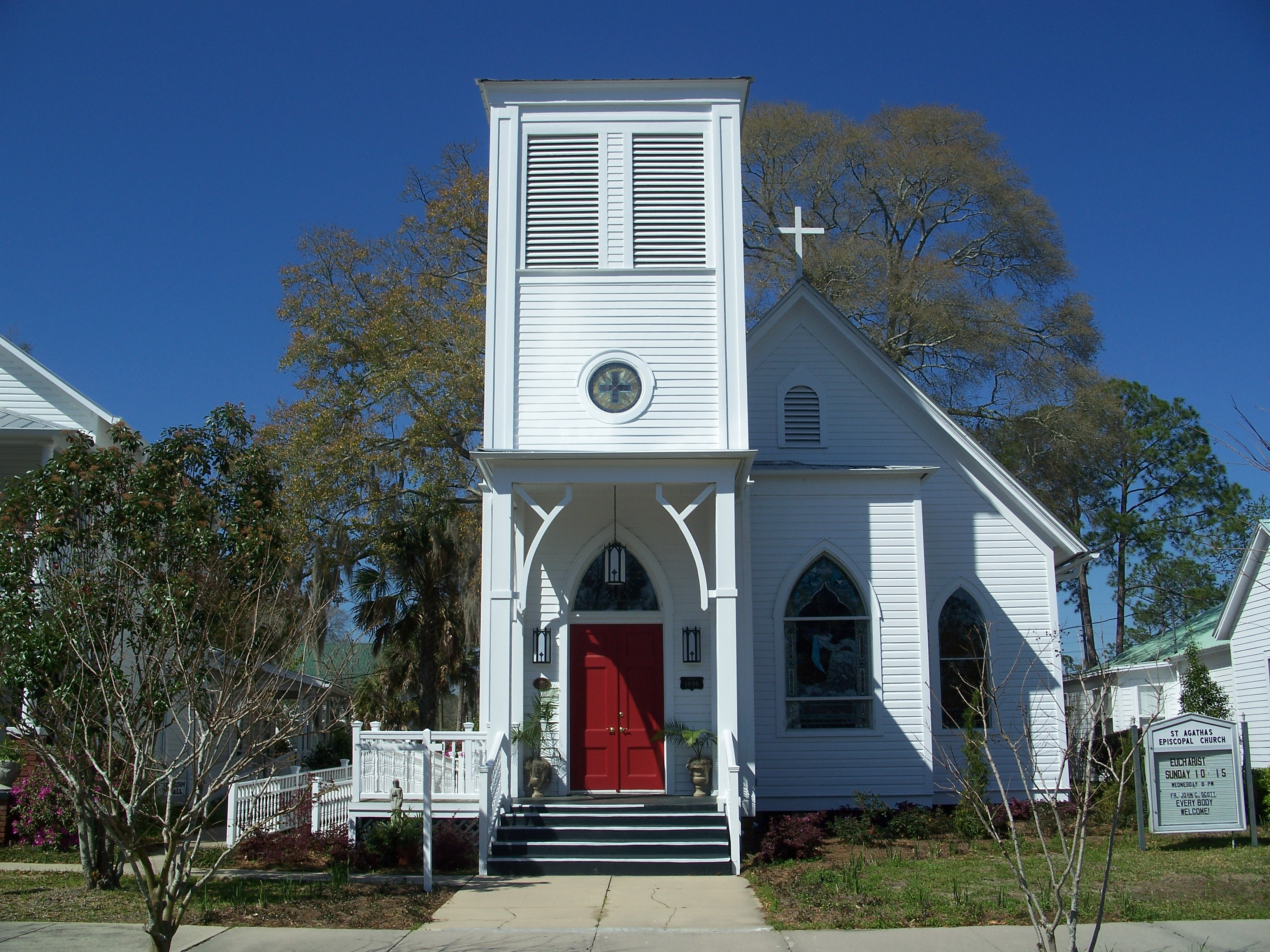 St. Agatha's Episcopal Church in the DeFuniak Springs Historic District in DeFuniak Springs, Florida. It is on Circle Drive, the road that goes around Lake DeFuniak, at the heart of the district. It is listed in A Guide to Florida's Historic Architecture.